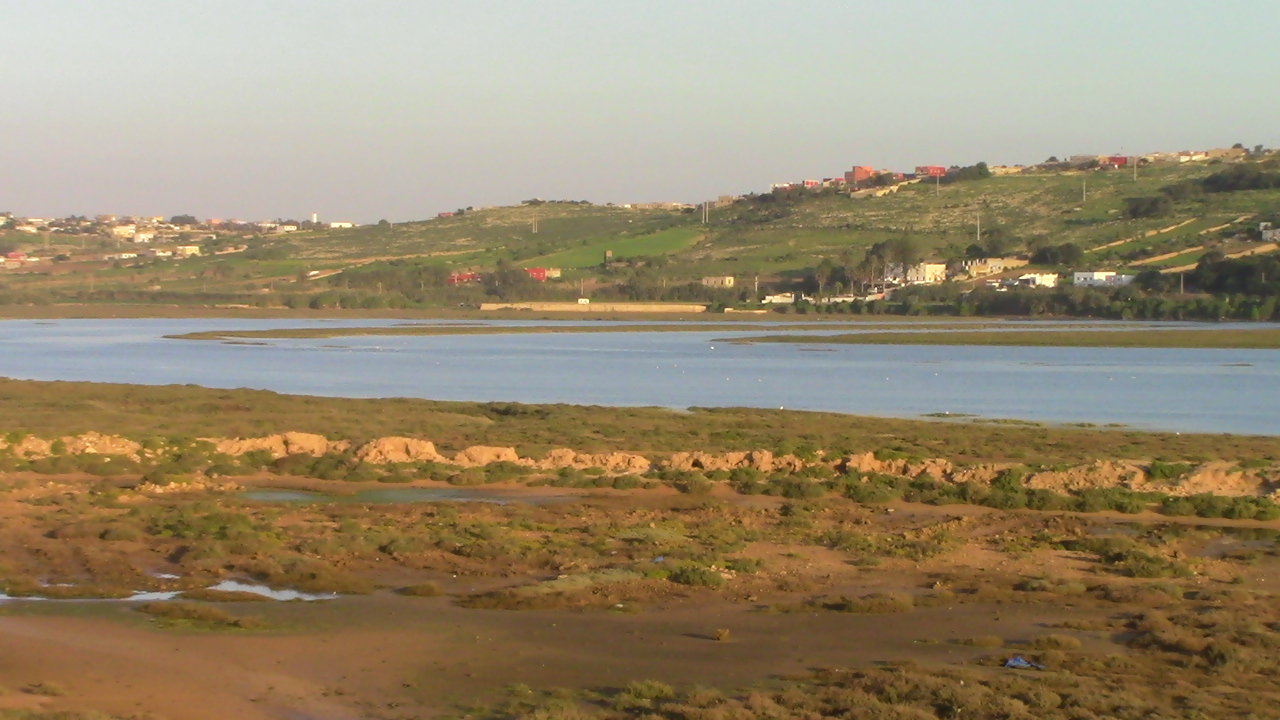 Sidi Moussa Lagoon Nature Preserve - View